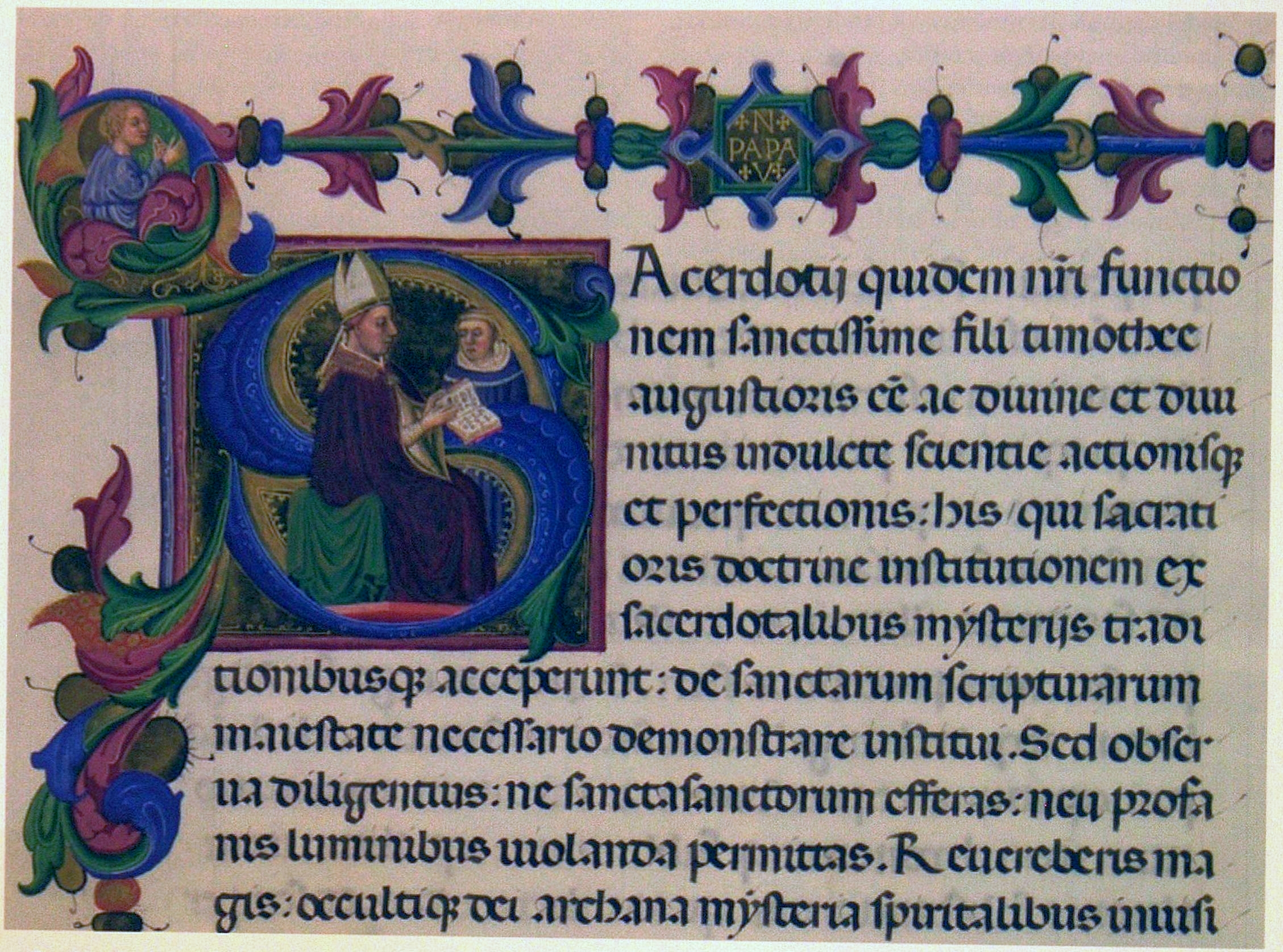 The beginning of Ambrose Traversari’s Latin translation of the Pseudo-Dionysian “Ecclesiastical Hierarchy” in the manuscript Vatican City, Biblioteca Apostolica Vaticana, Vat. lat. 169, fol. 31r. In the miniature Dionysius, the presumed author, is portrayed in a conversation with a cleric.